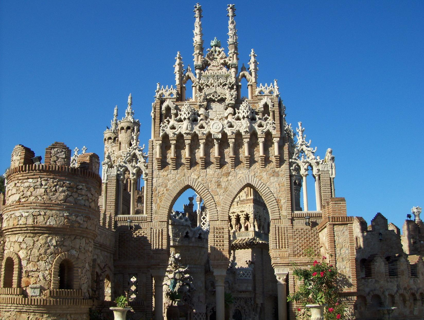 The front